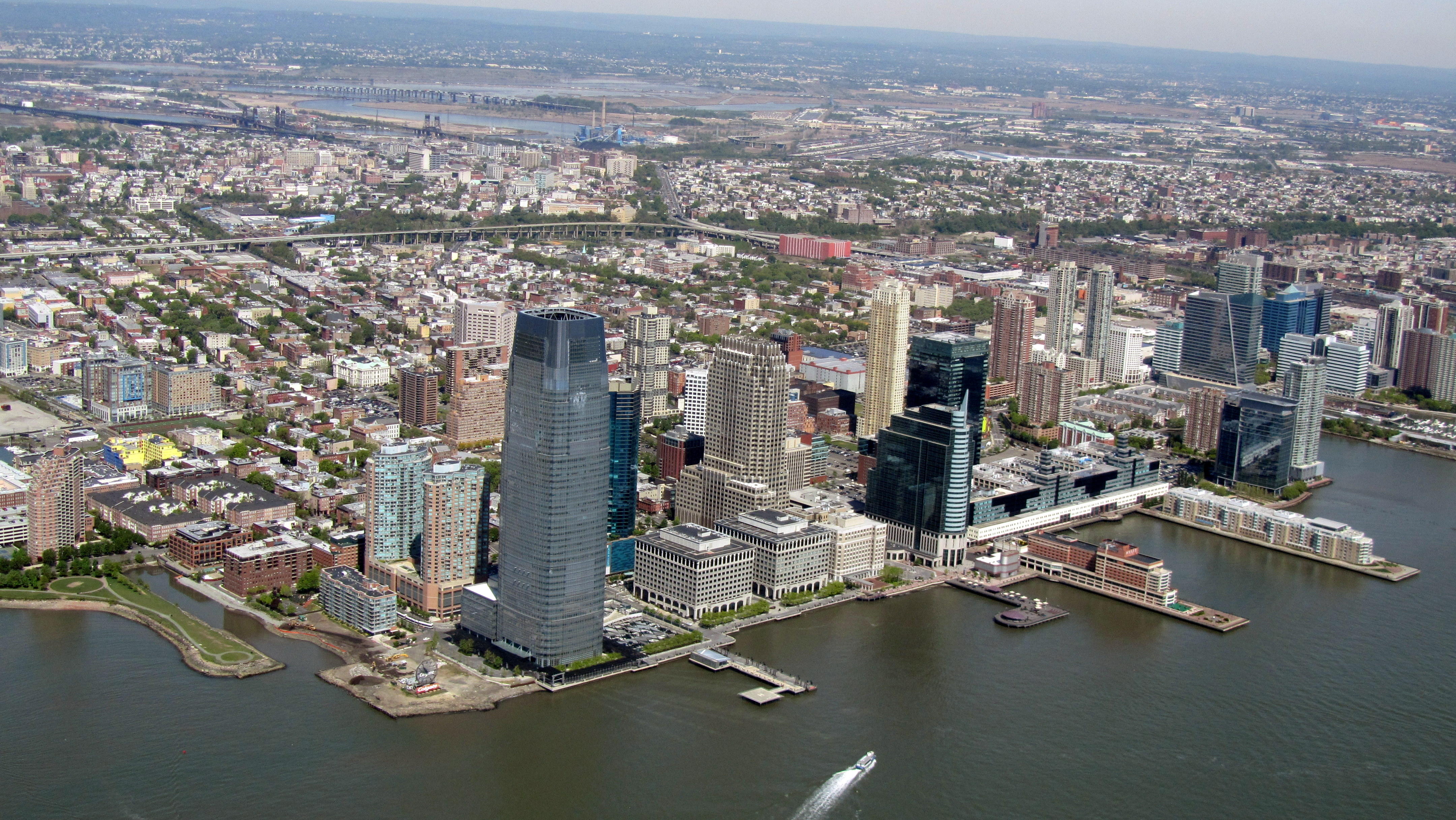 Jersey City from a helicopter.